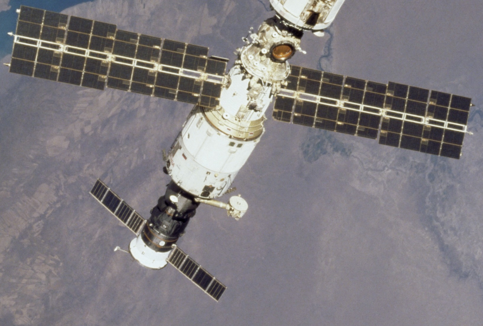 ISS Zvezda service module with docked Progress M1-3 spacecraft, taken in September 2000 by STS-106 (NASA)